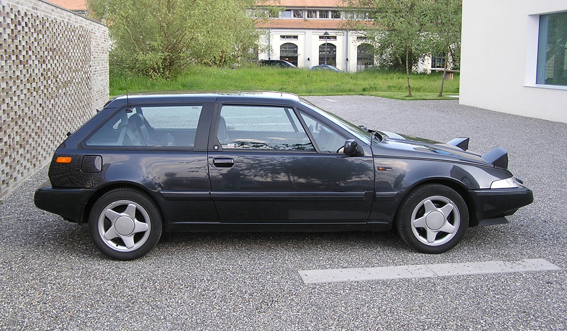 One of the last delivered Volvo 480, reg. date 09/1995